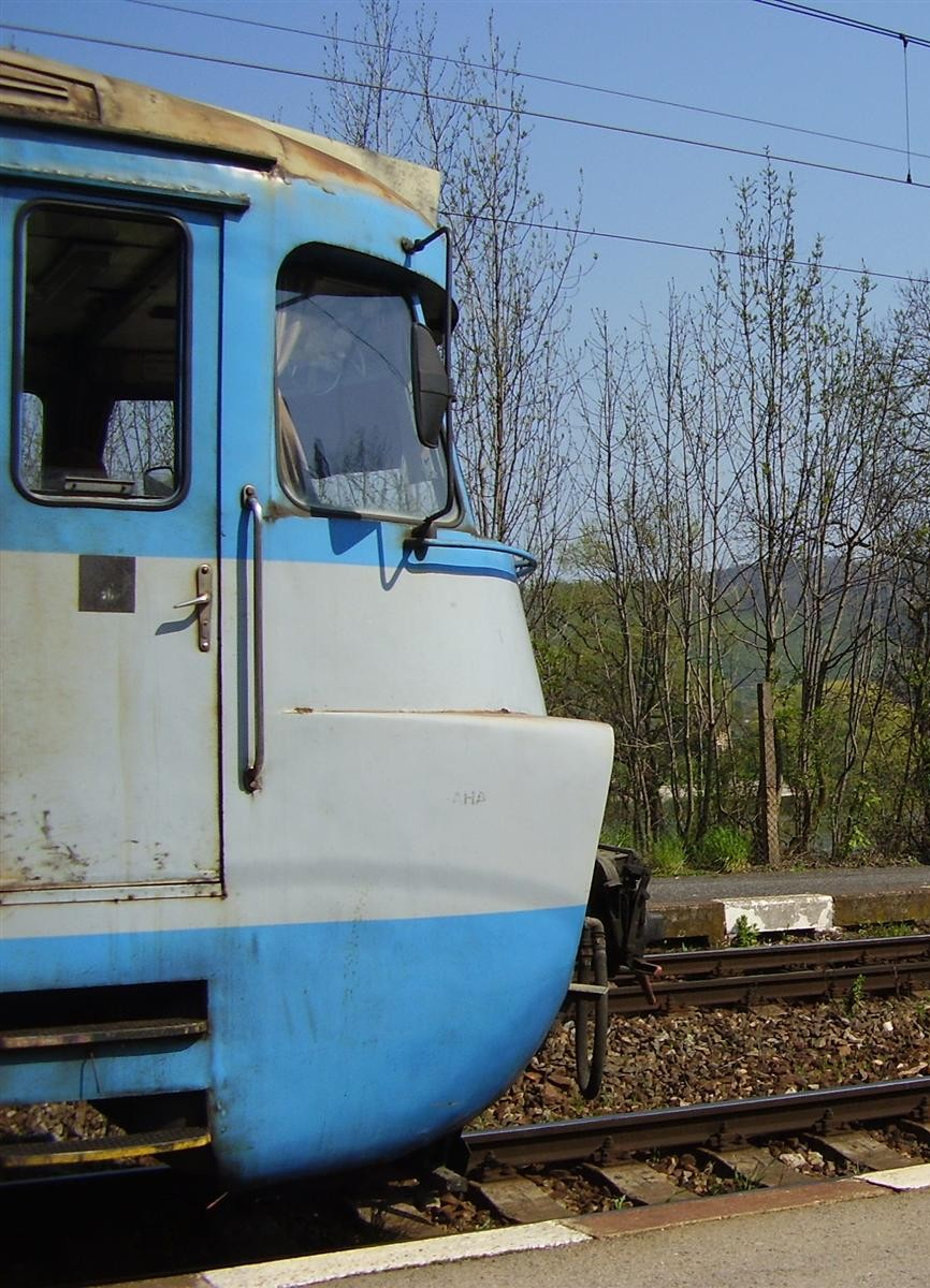 Electric multiple unit 451 in Zadní Třebaň train station